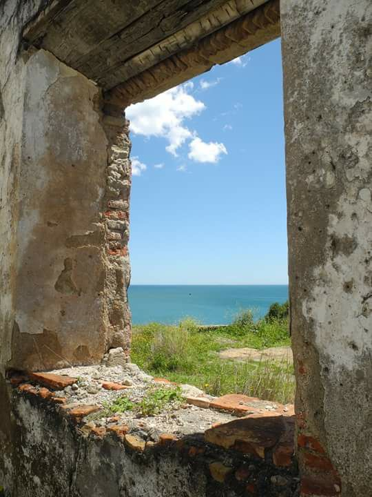 North Africa End of the road